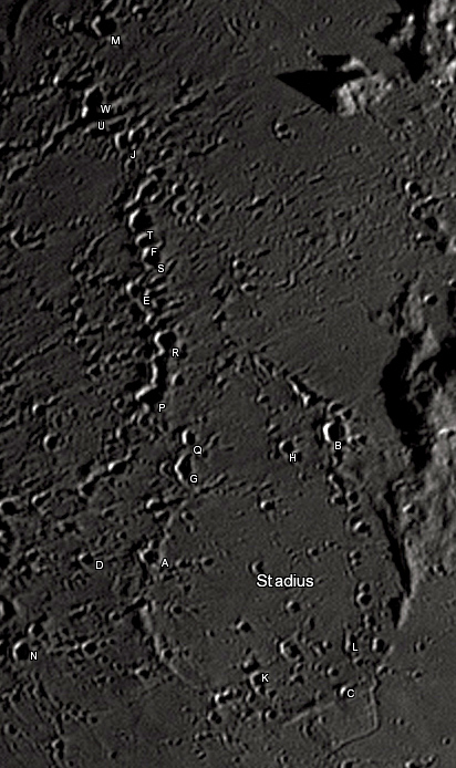 Stadius lunar crater as seen from Earth with satellite craters labeled